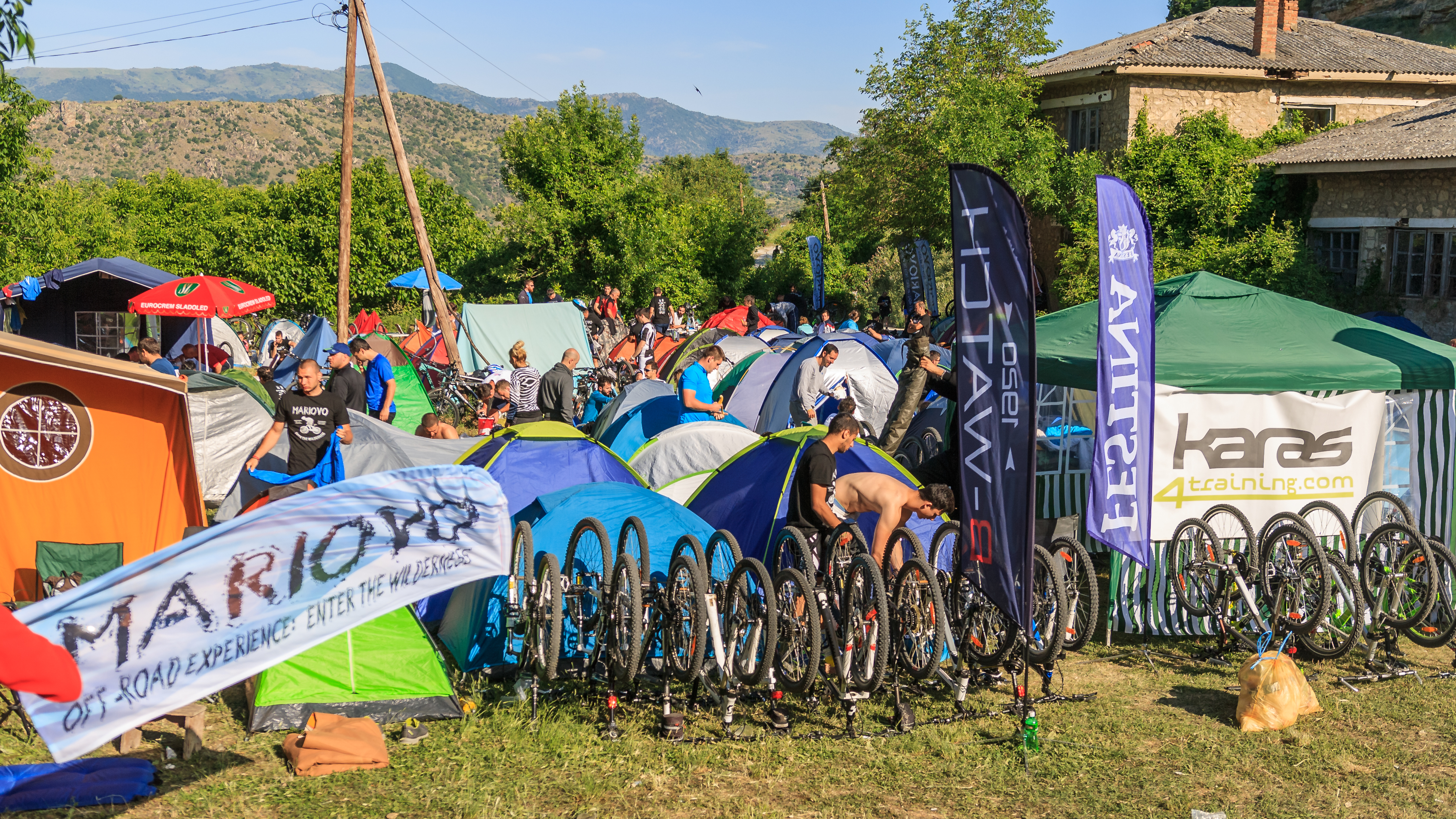 Camping place of the festival Mariovo Off-Road Experience